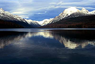 Bowman Lake — with Rainbow Peak of the Livingston Range on the right. Located in Glacier National Park, Montana.